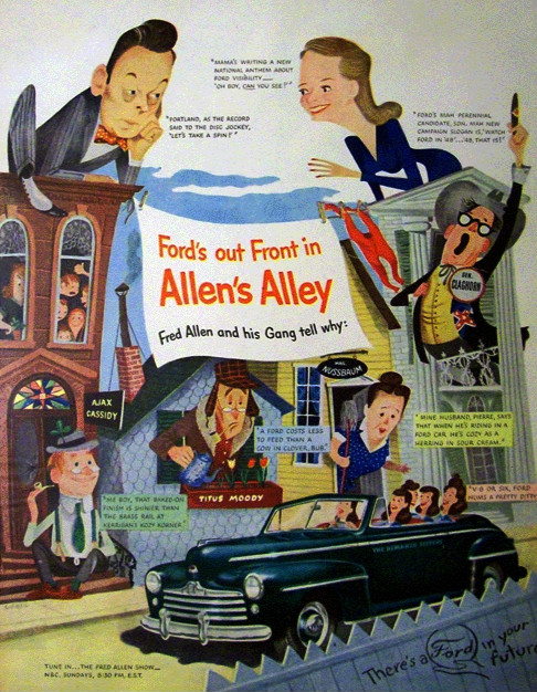 Life magazine ad for Ford Motor Company featuring Allen's Alley, 1948. Copyright details There are no copyright marks on the full pages of the ad, as can be seen at the link above. The pages are clearly marked as advertisements, so they are not a part of any Life Magazine copyrights. US Copyright Office page 3-magazines are collective works (PDF) "A notice for the collective work will not serve as the notice for advertisements inserted on behalf of persons other than the copyright owner of the collective work. These advertisements should each bear a separate notice in the name of the copyright owner of the advertisement." Image can be dated from the magazine's date, April 19, 1948.